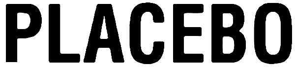 Placebo Logo